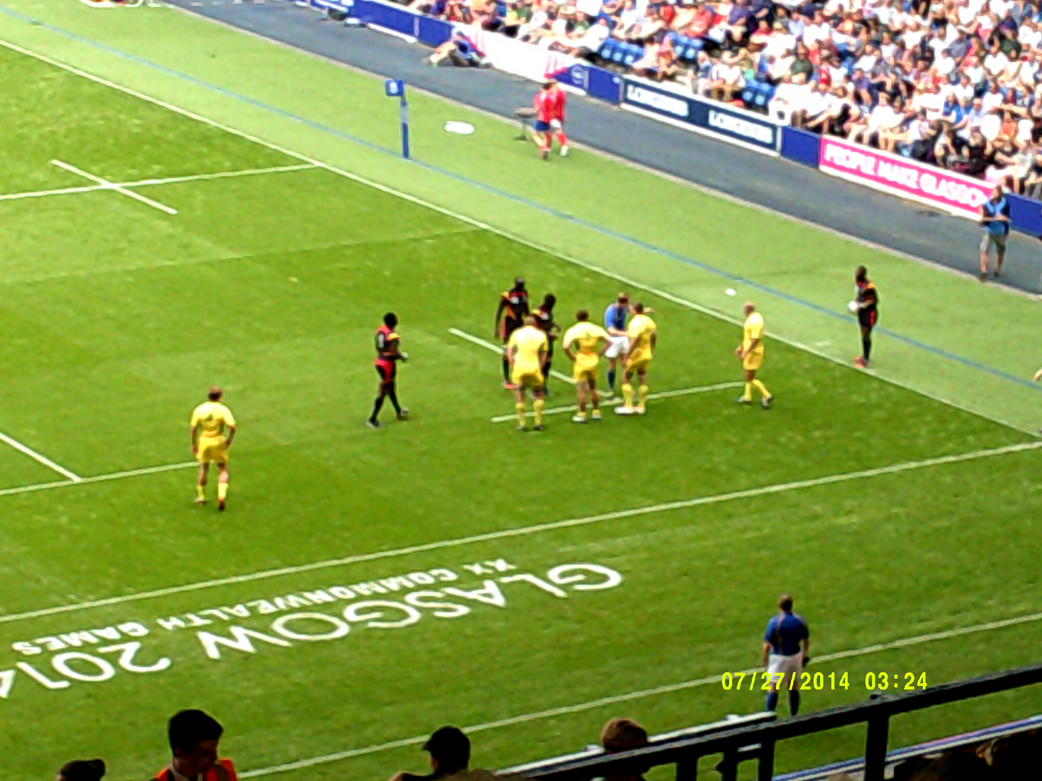 Australia playing Uganda